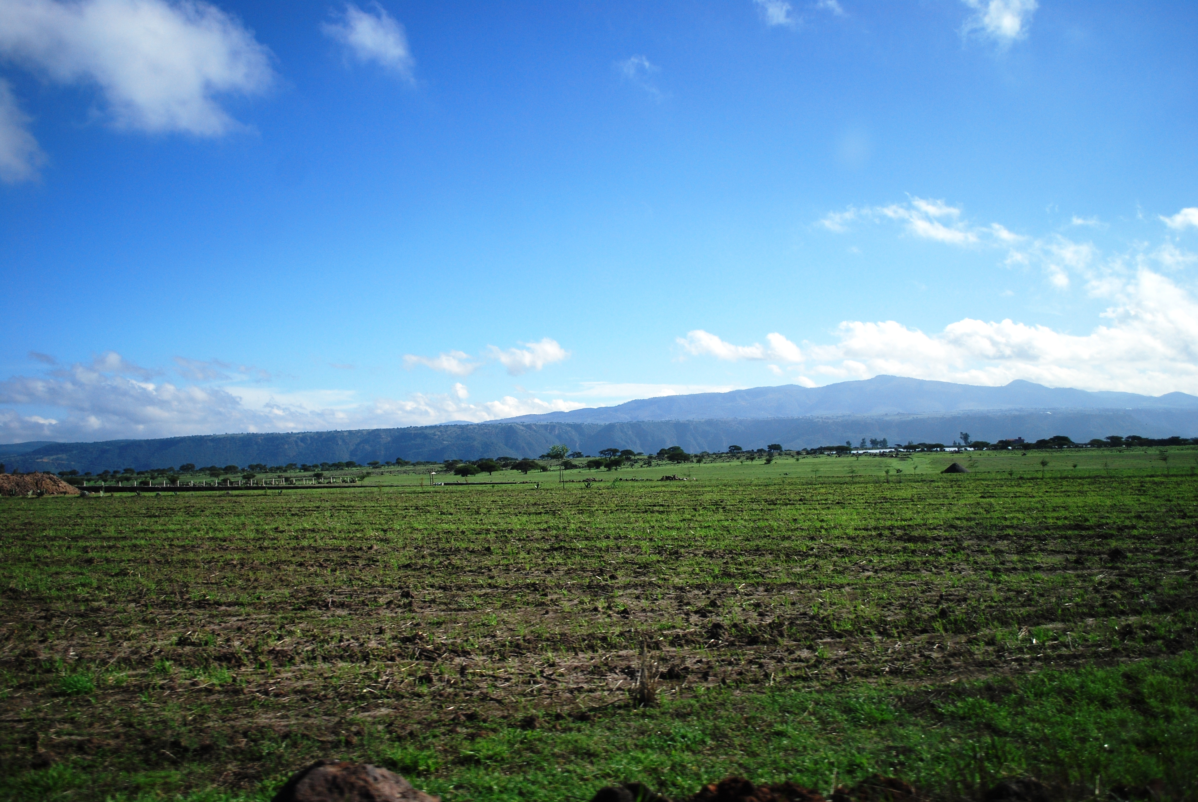 Looking north from the road near the Peña del Aire in Huasca de Ocampo, Hidalgo, Mexico